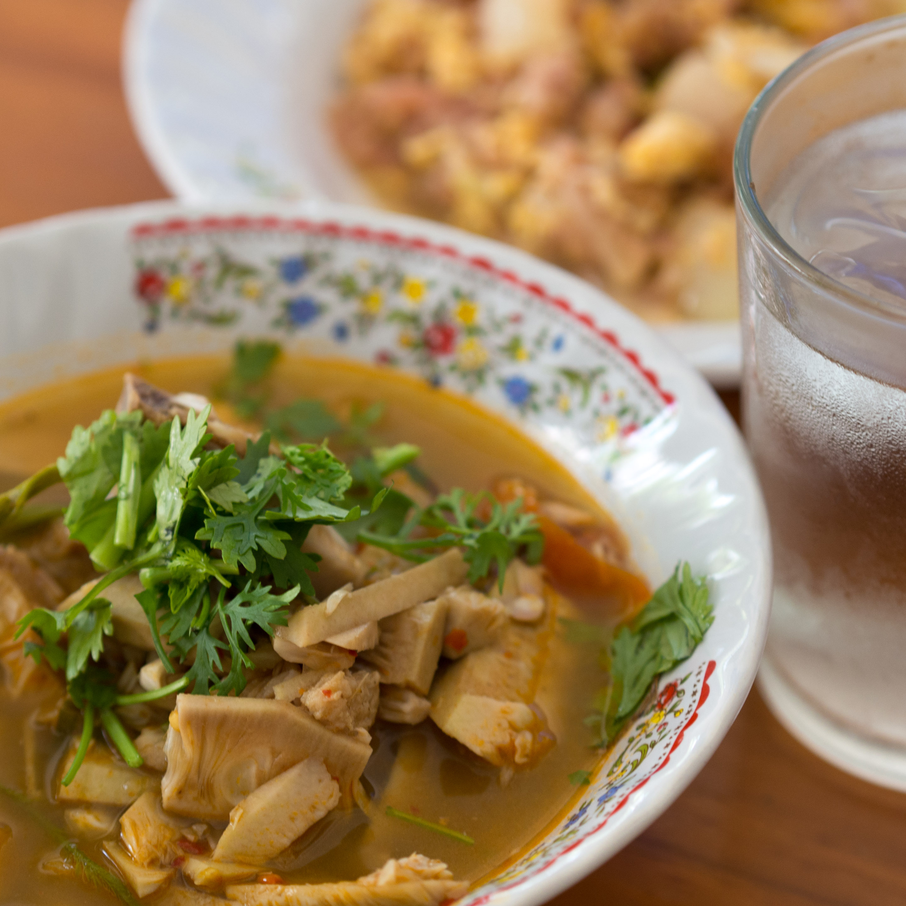 Kaeng khanun (Thai script: แกงขนุน): northern Thai jackfruit curry.